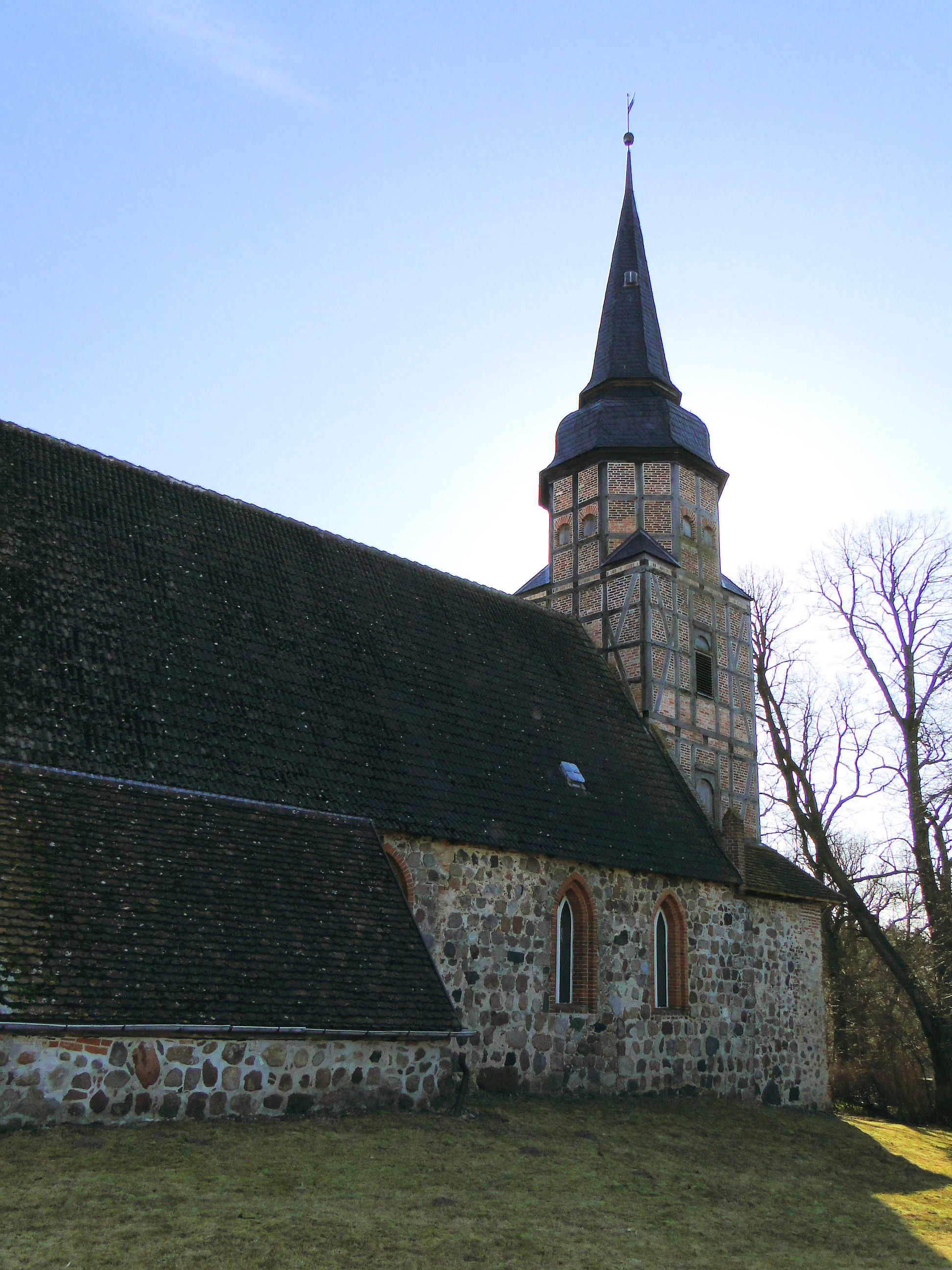 Church in Hinrichshagen (near Woldegk), district Mecklenburg-Strelitz, Mecklenburg-Vorpommern, Germany